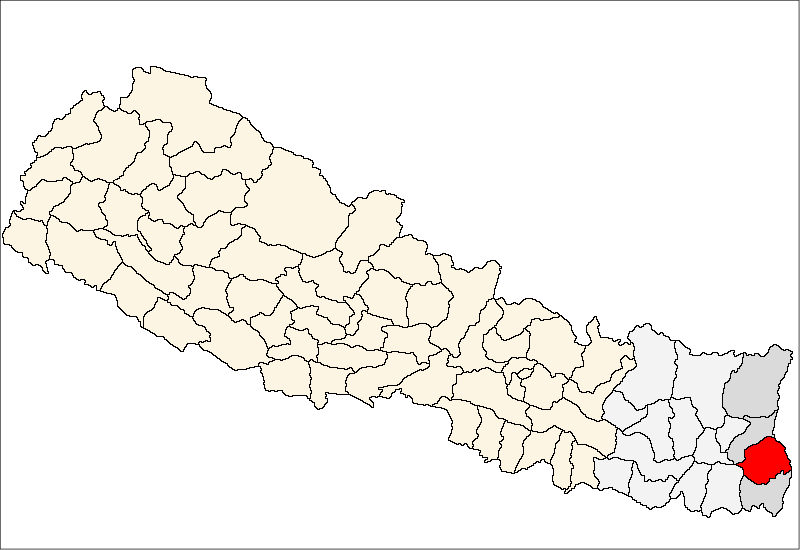 FrenchCarte de localisation dudistrict d'Ilam(wp-FR),au Népal (wp-FR).EnglishLocation map ofIlam District(wp-EN),in Nepal (wp-EN).